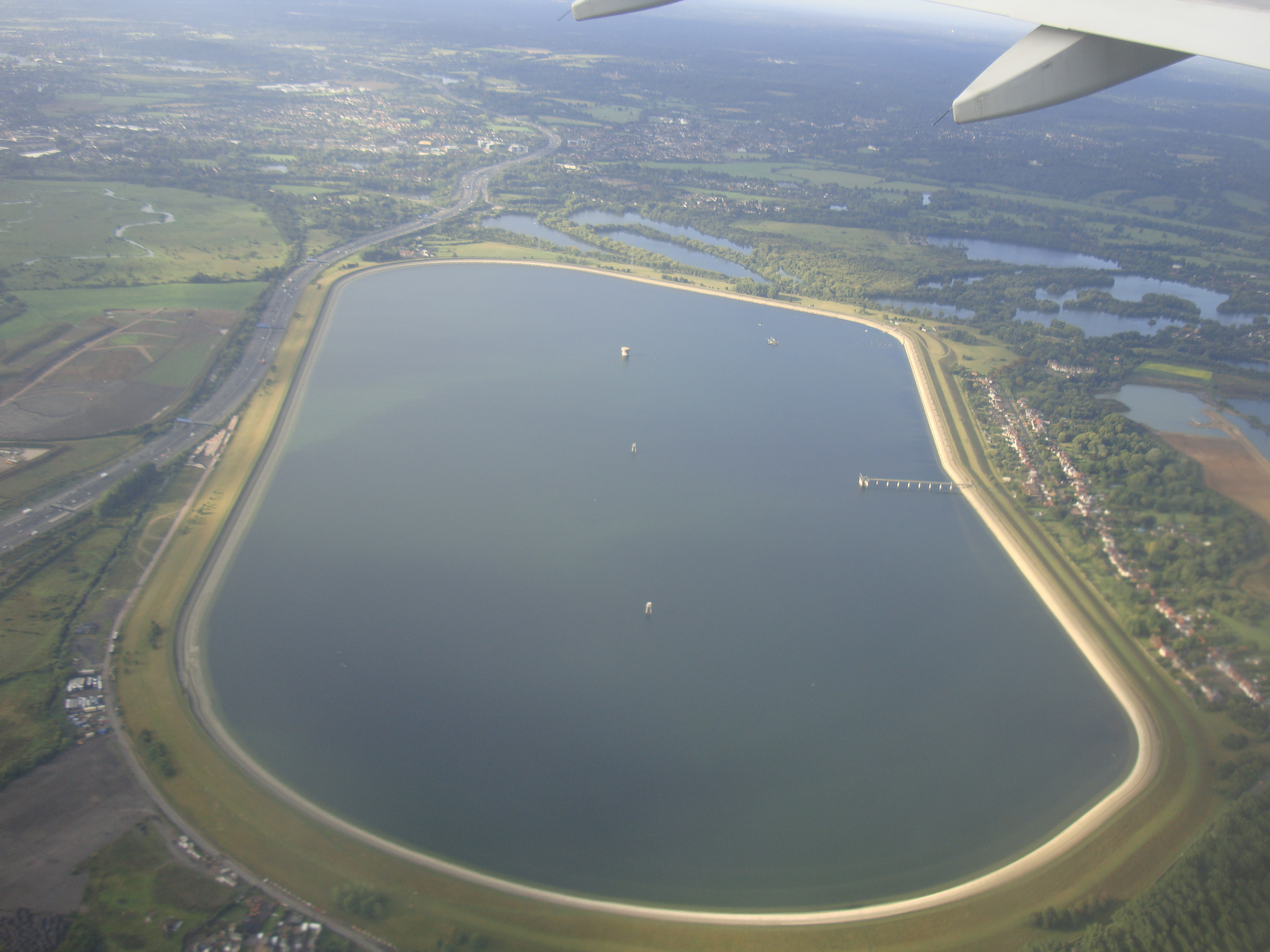 Photograph of Wraysbury Reservoir, Surrey, England ; one of the first places where the Quagga mussel (invasive in the US) was observed in Western Europe